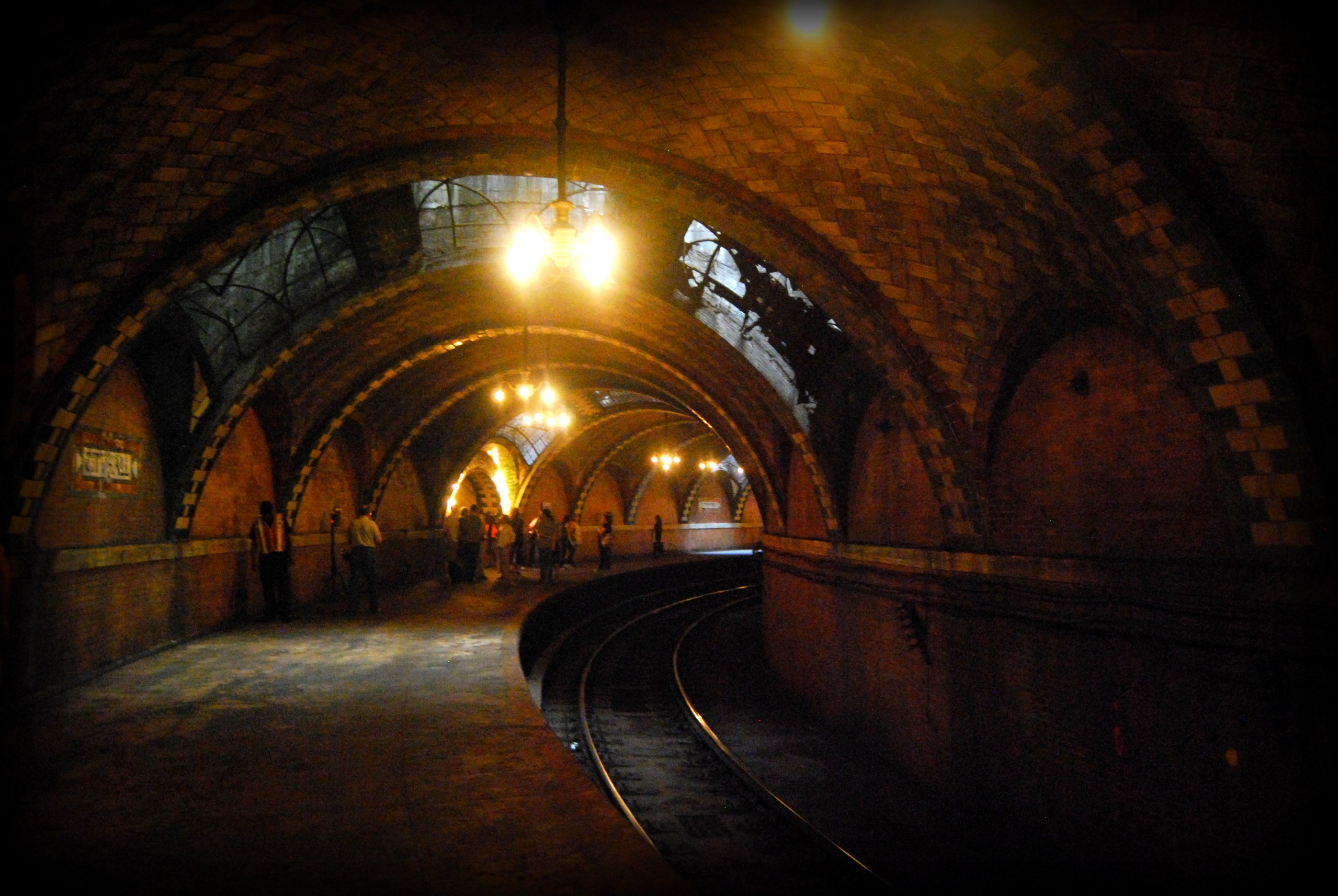 City Hall Station